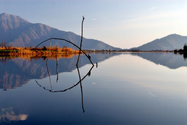 Nageen Lake in Winter